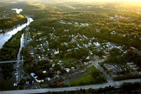 this photo was taken by the submitter on 08*24*05 from approximately 1500 feet. downtown Kingston ny is laid out, with rondout creek to the left and the Wurts street bridge crossing both the creek and "Island Dock." sticking out of the center of the foreground is the recently rebuilt steeple of Celebration Church, only half finished at the time of this photo and showing its new local hemlock planks ready for slating.